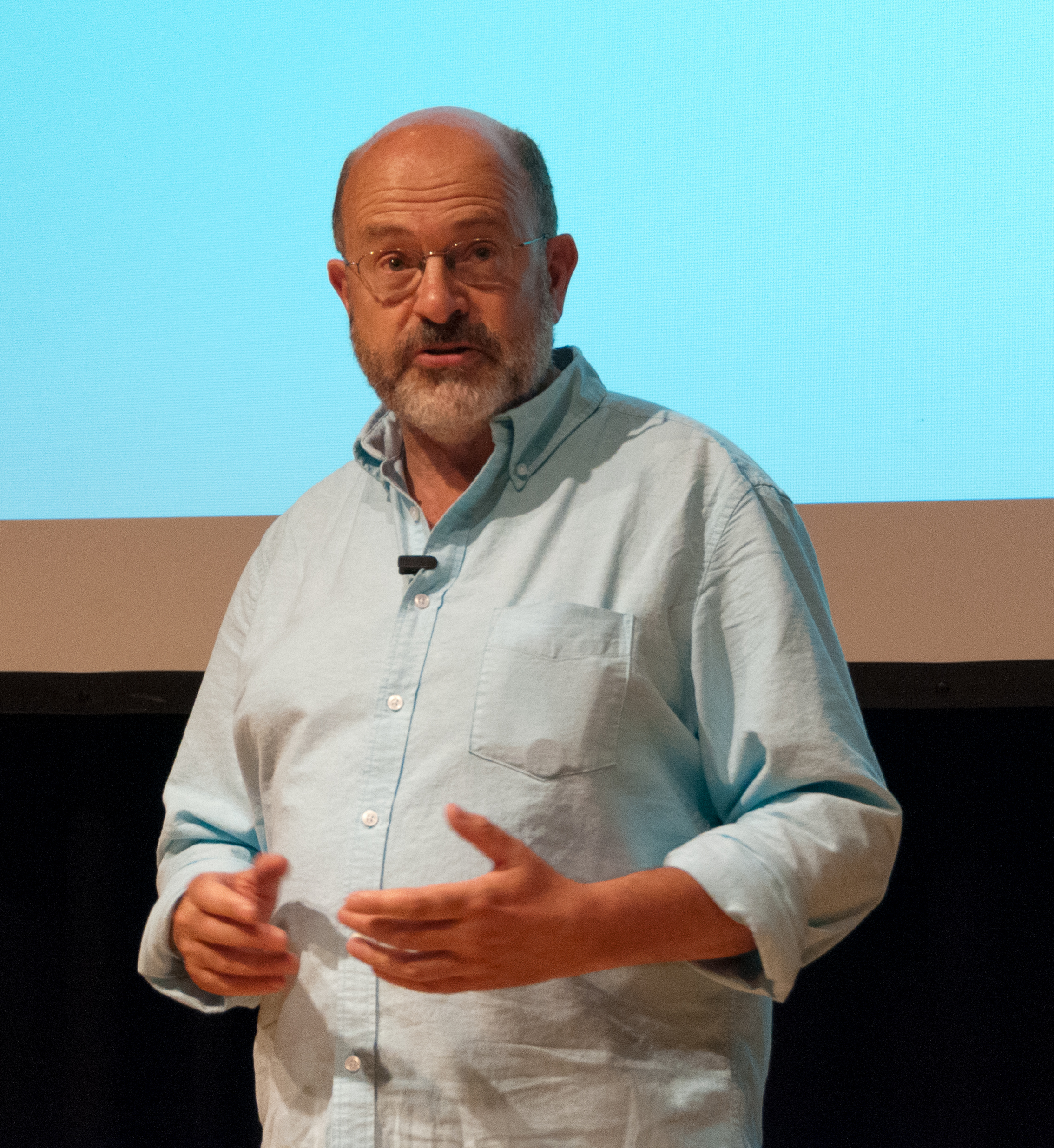 John Sweeney giving a talk at Winchester Skeptics on Scientology.